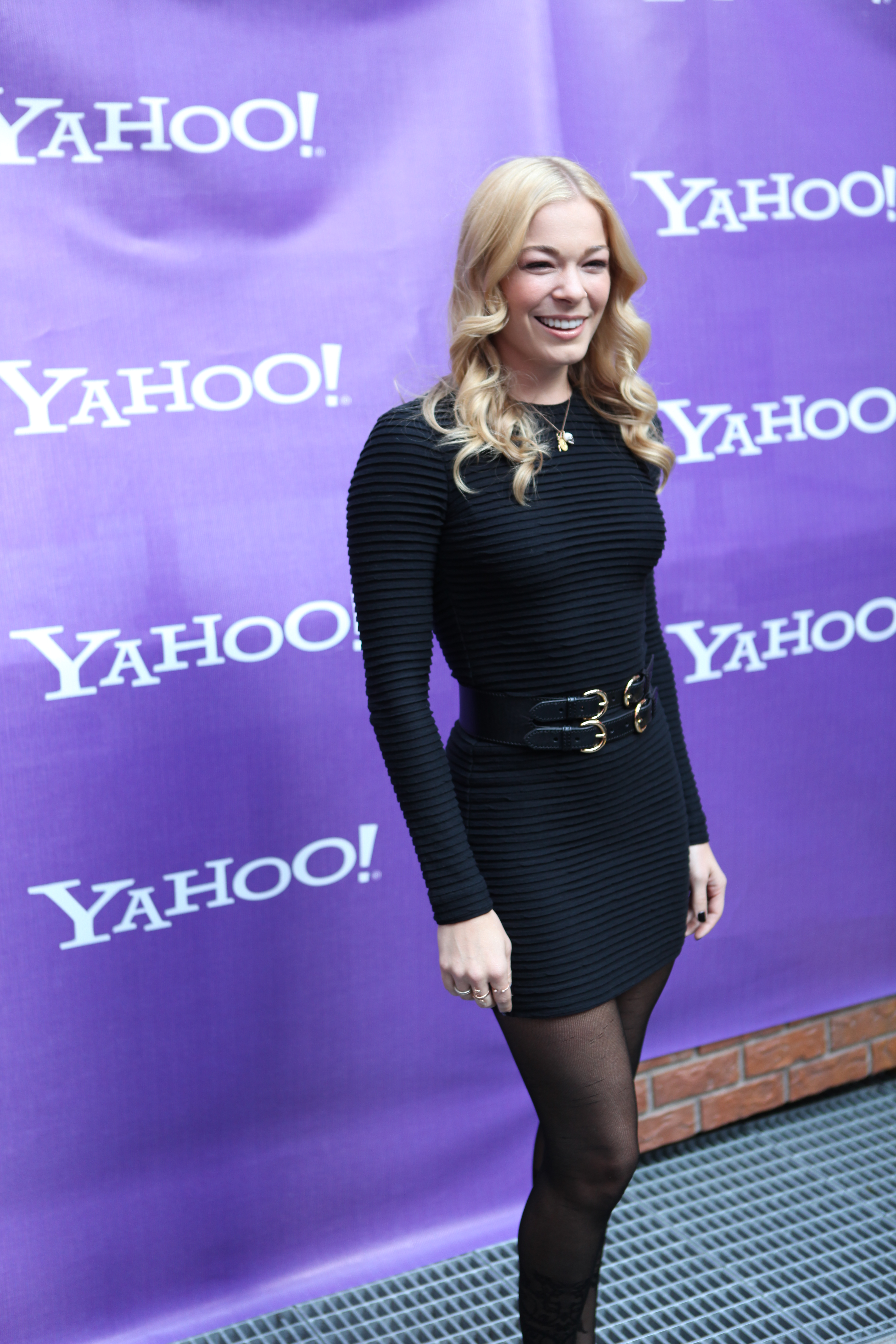 LeAnn Rimes vogues for the cameras